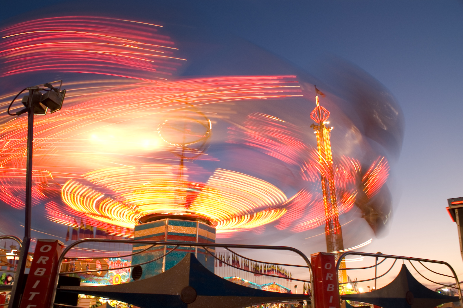 A fair ride taken with a long shutter speed.